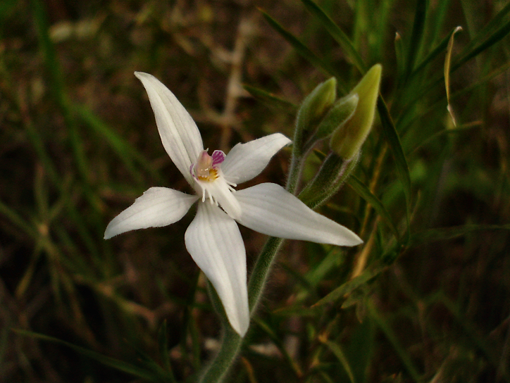 Caladenia latifolia Pink Fairy Orchid (white variant)